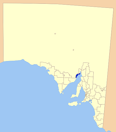 Modification of Astrokey44's original map found here: File:SA_LGA_blank.png Position of Coober pedy LGA